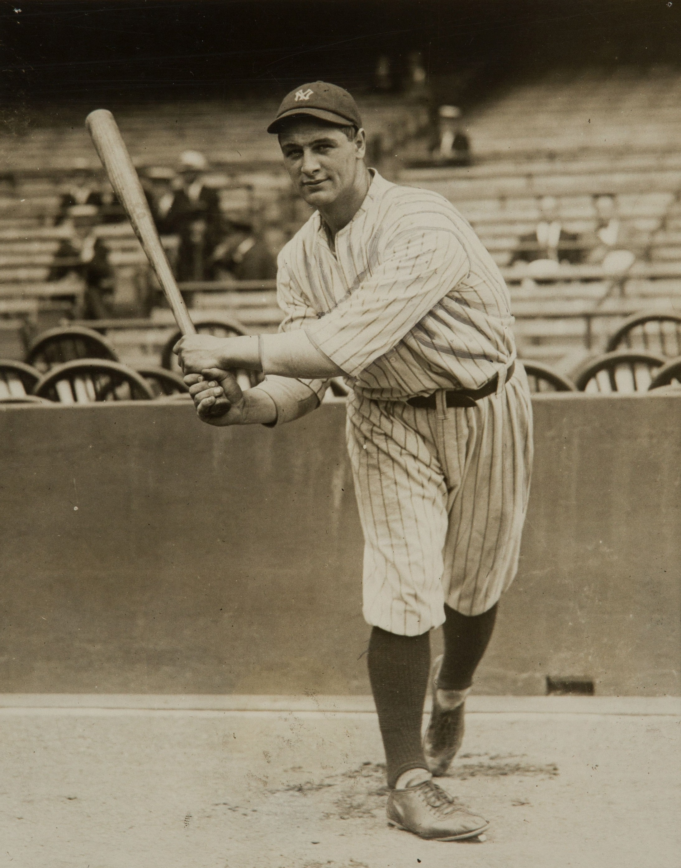 American baseball player Lou Gehrig when he was introduced as new player of the New York Yankees.